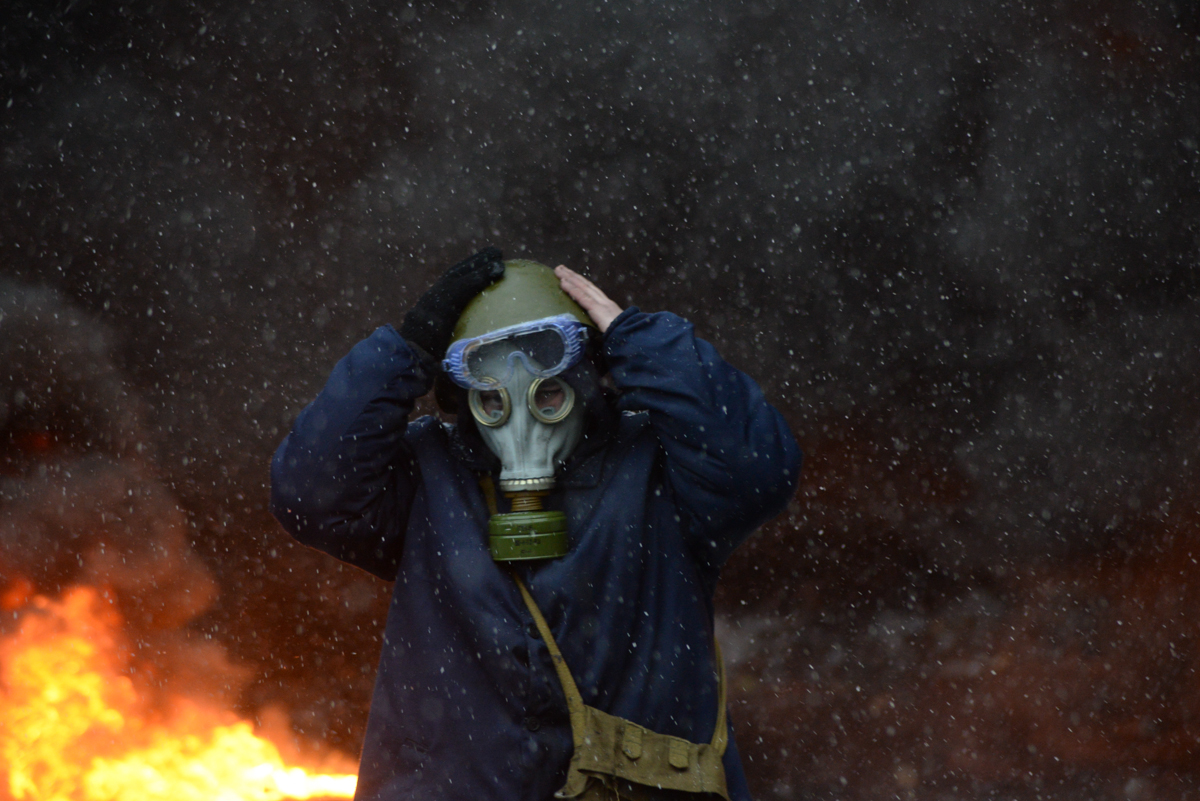 Protester wearing a tear gas mask against background of the massive fire set by protesters to prevent internal forces from crossing the barricade line. Kyiv, Ukraine. Jan 22, 2014